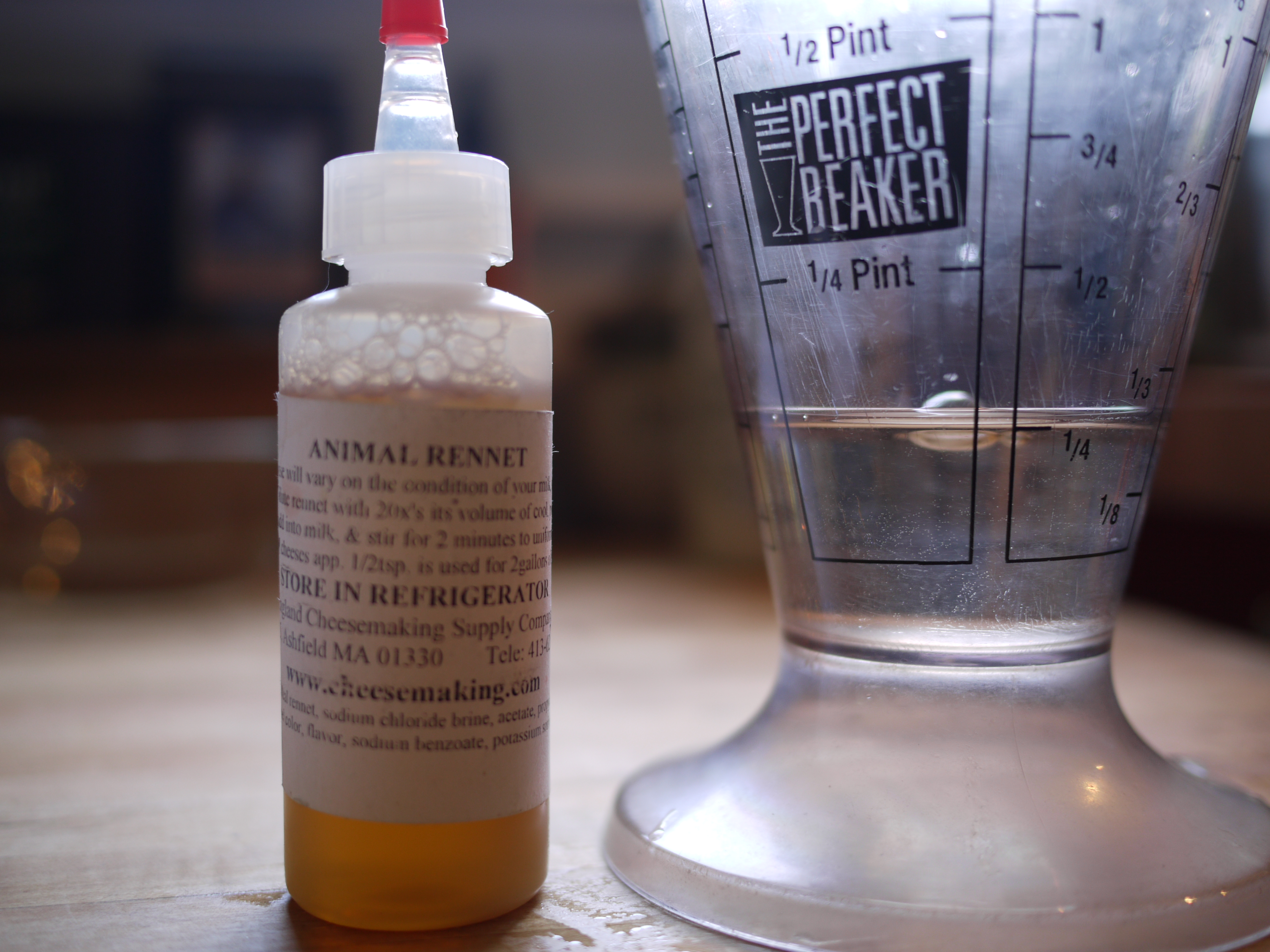 Animal rennet to be used for making clothbound cheddar cheese